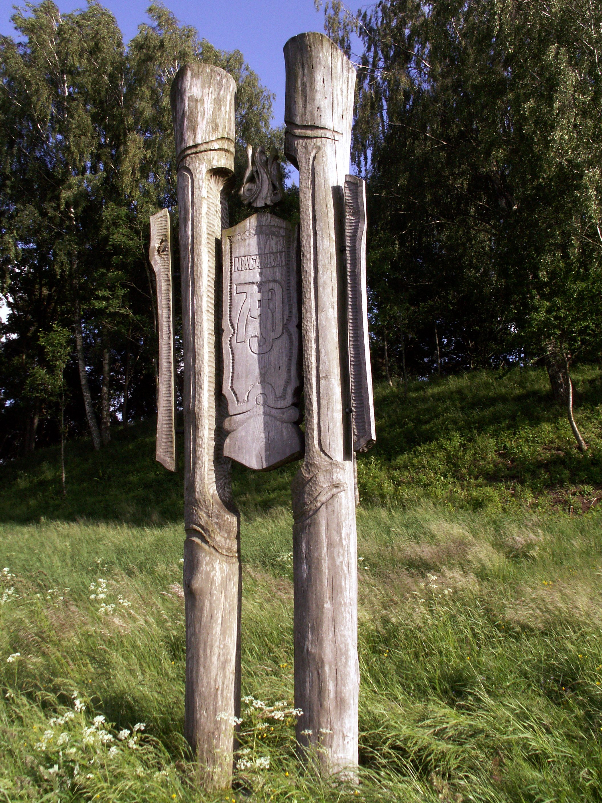 Hillfort Nagarba, Kretinga district, Lithuania